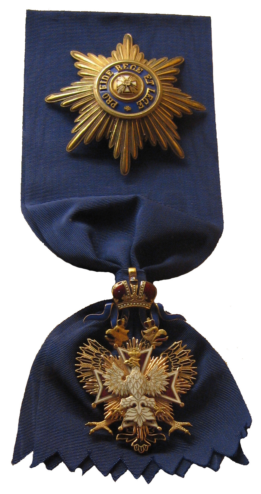 Insignia of the Imperial-Royal Order of the White Eagle, Russian Empire.